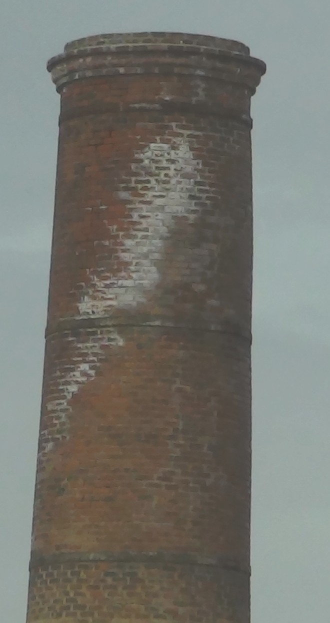 Pathologies of industrial chimneys